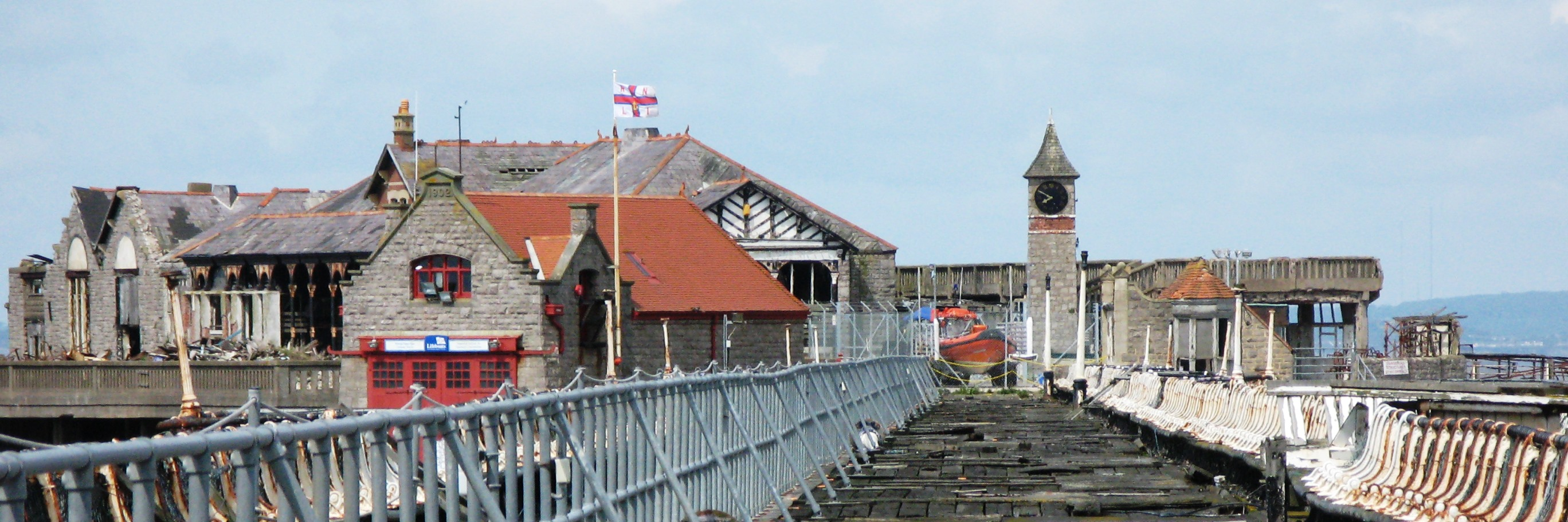 Birnbeck Pier, Weston-super-Mare, North Somerset, England.